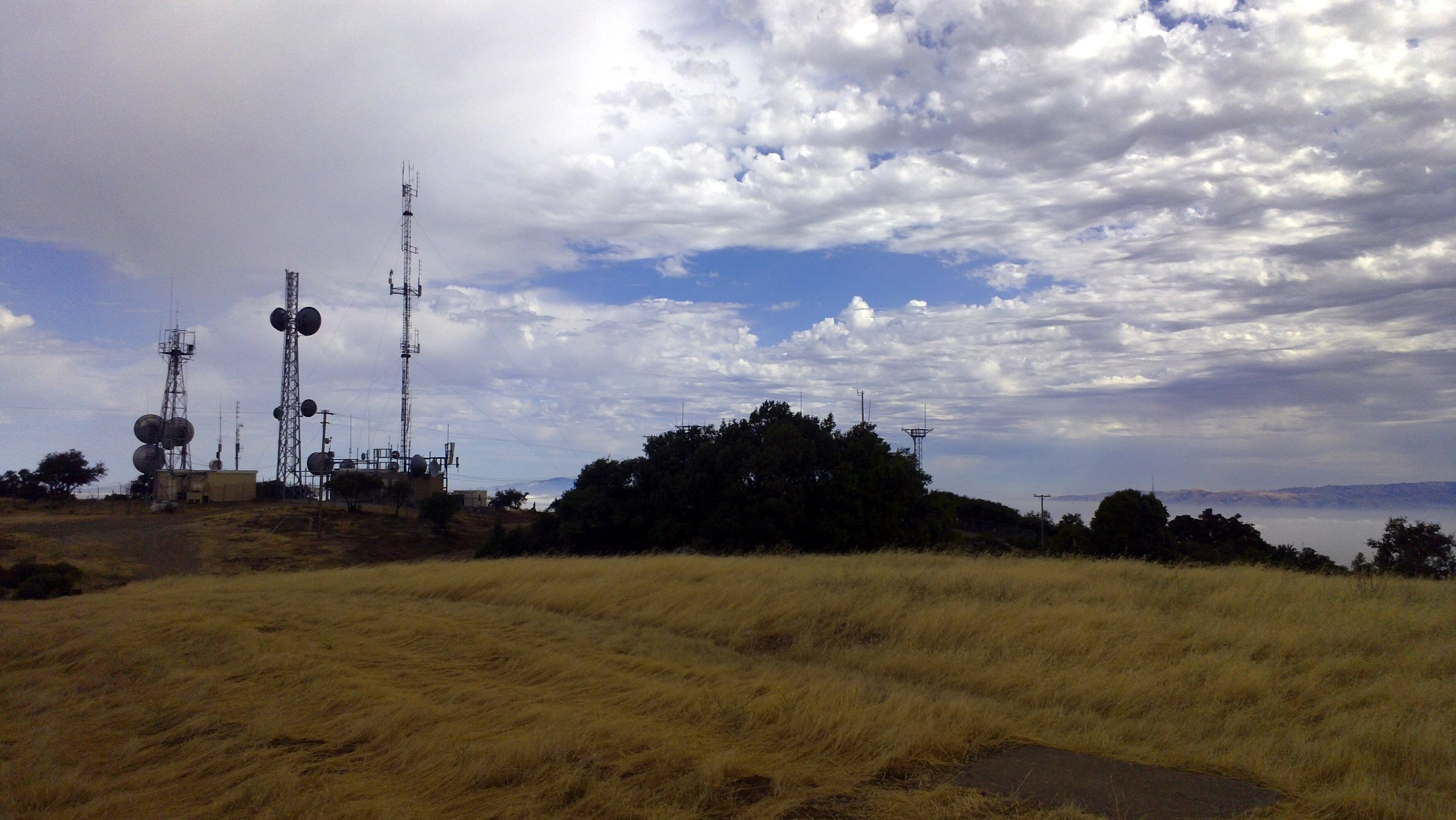 Black Mountain summit in Los Altos (California, USA). View from the highest point of the trail towards Palo Alto and the center of the bay.